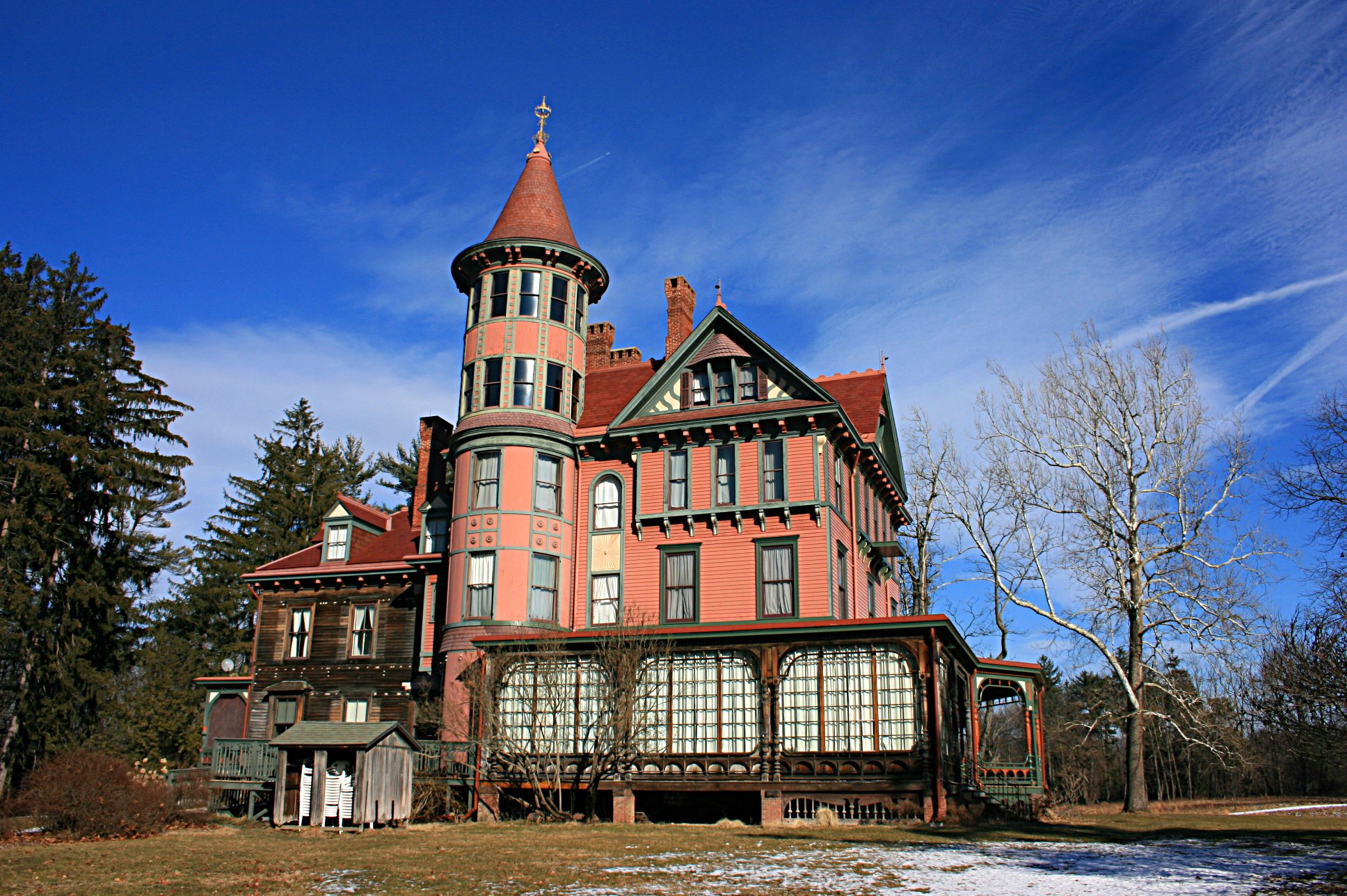 Photograph of the Wilderstein mansion, Town of Rhinebeck, Dutchess County, New York, USA